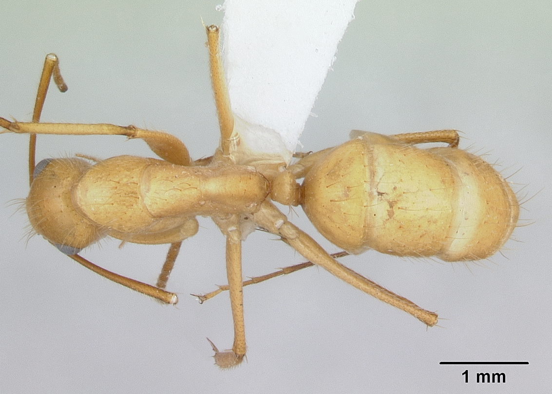 Dorsal view of ant Camponotus balzani specimen casent0173394.